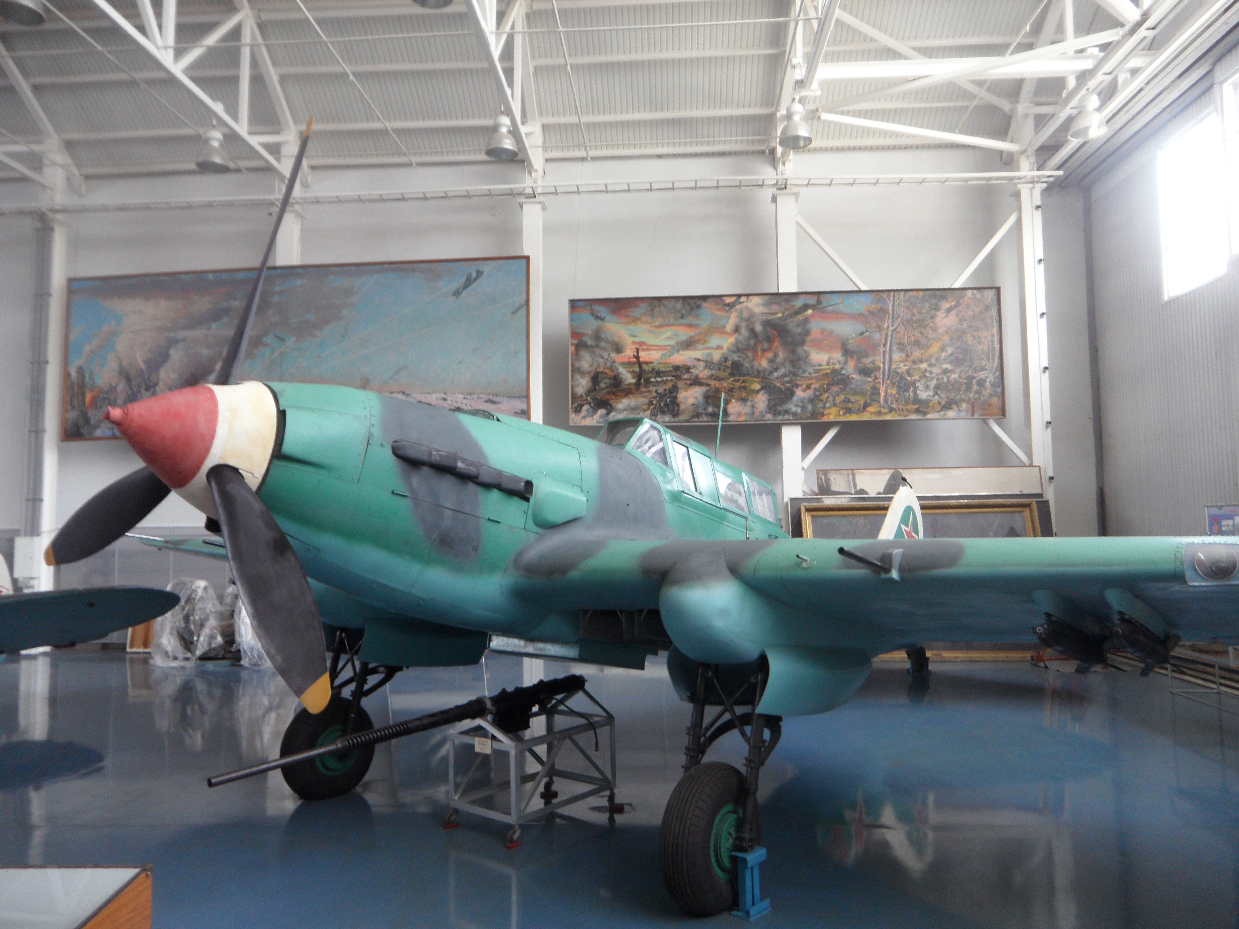 A restored Ilyushin IL-2 Sturmovik, Airframe #301060, built by Plant 30, Moscow, housed in the Central Air Force Museum, Moscow, Russian Federation